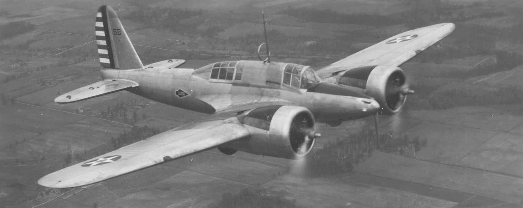 Source: US Government photograph taken by a US government employee. The original is found on: [1]